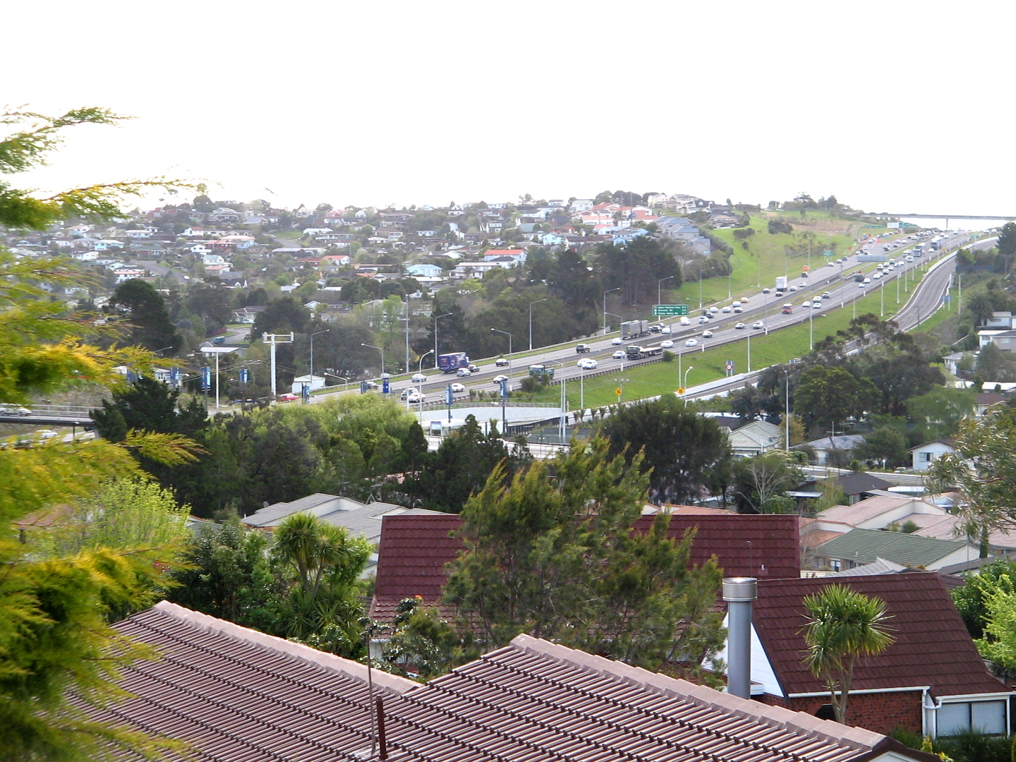 The Auckland Northern Motorway as seen from the suburb of Forrest Hill, Auckland.